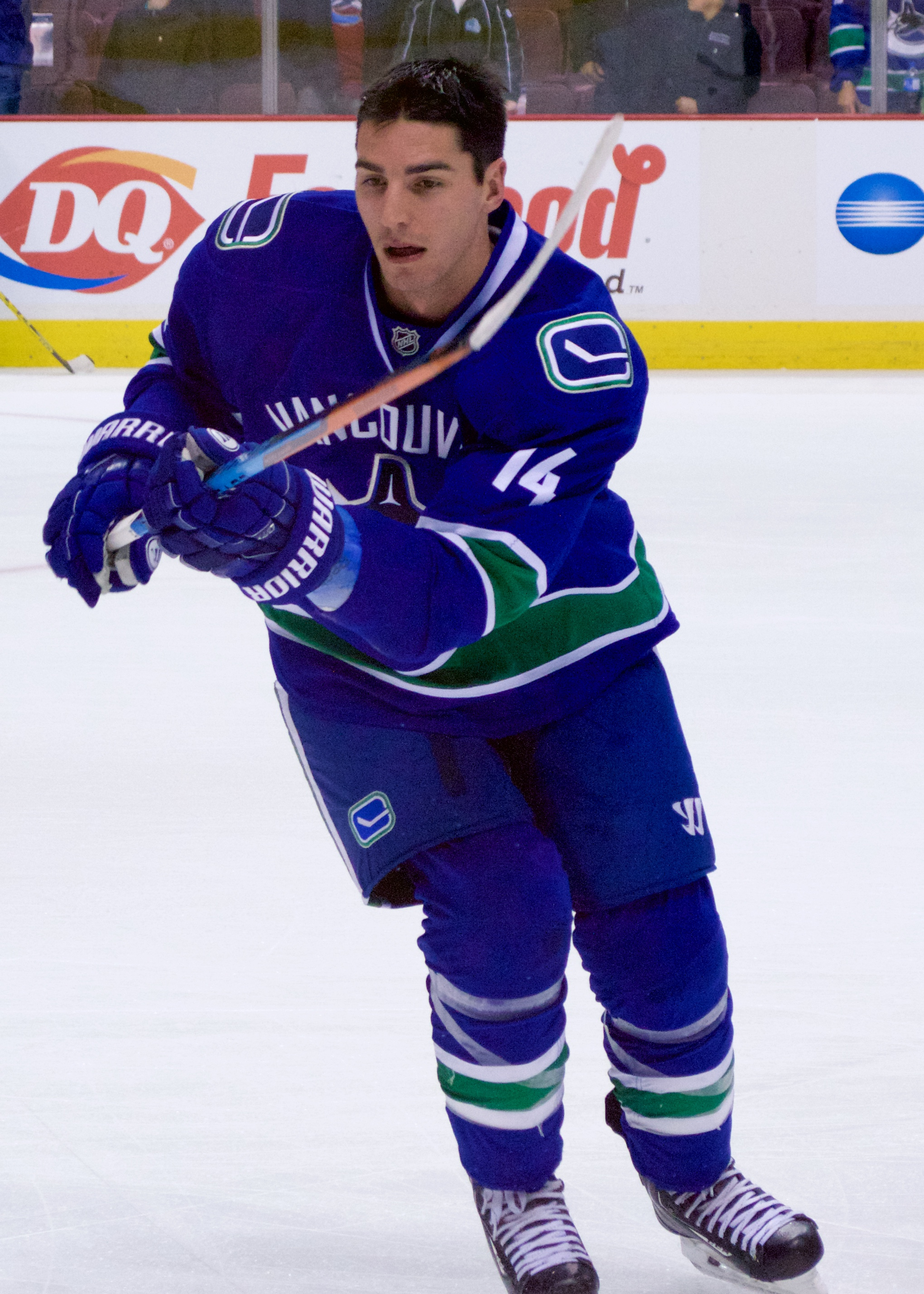 Vancouver Canucks forward Alex Burrows during pre-game warmup on October 22, 2015.